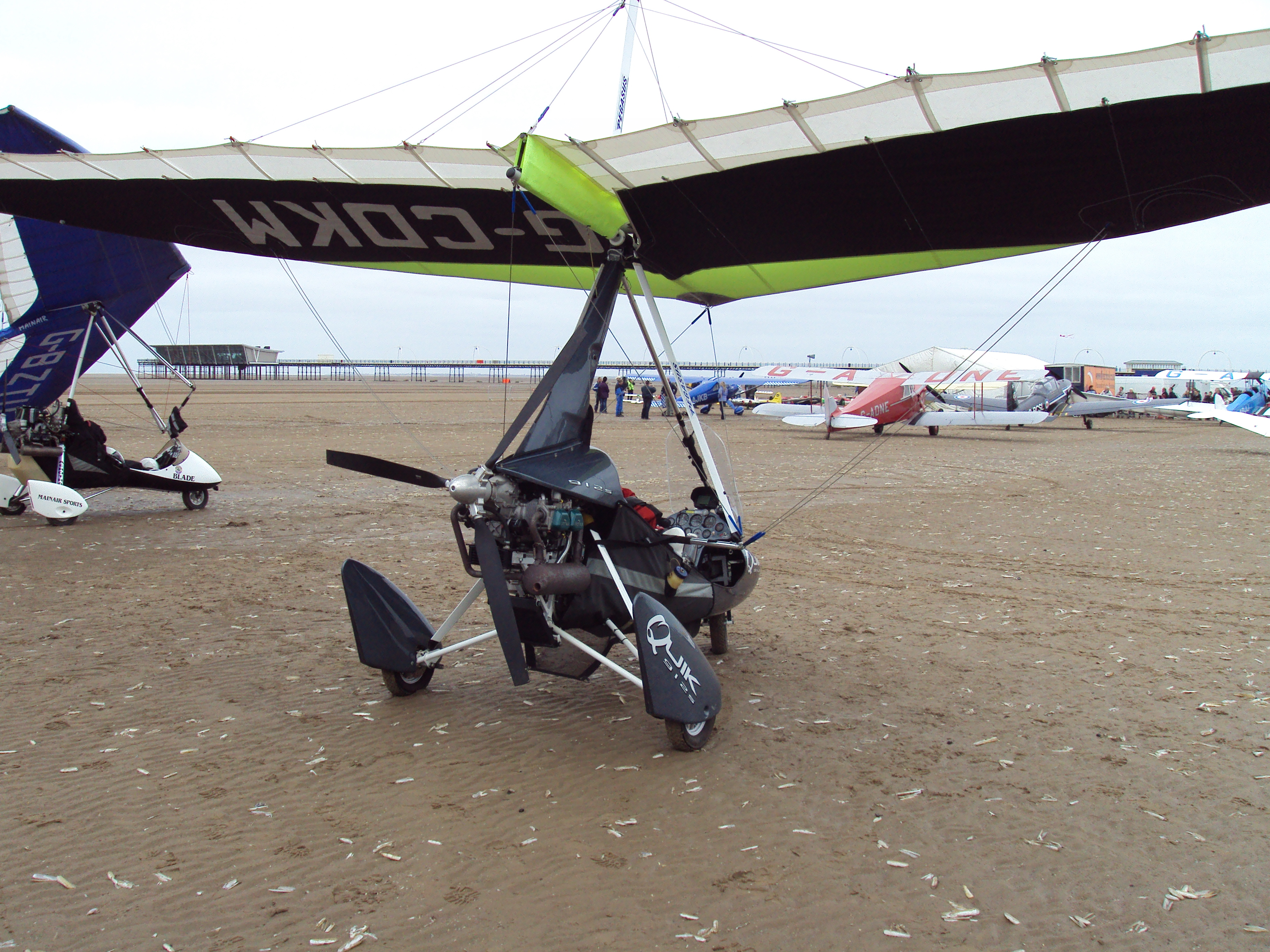 Microlight aircraft at the 2009 Southport Air Show, Merseyside, England.